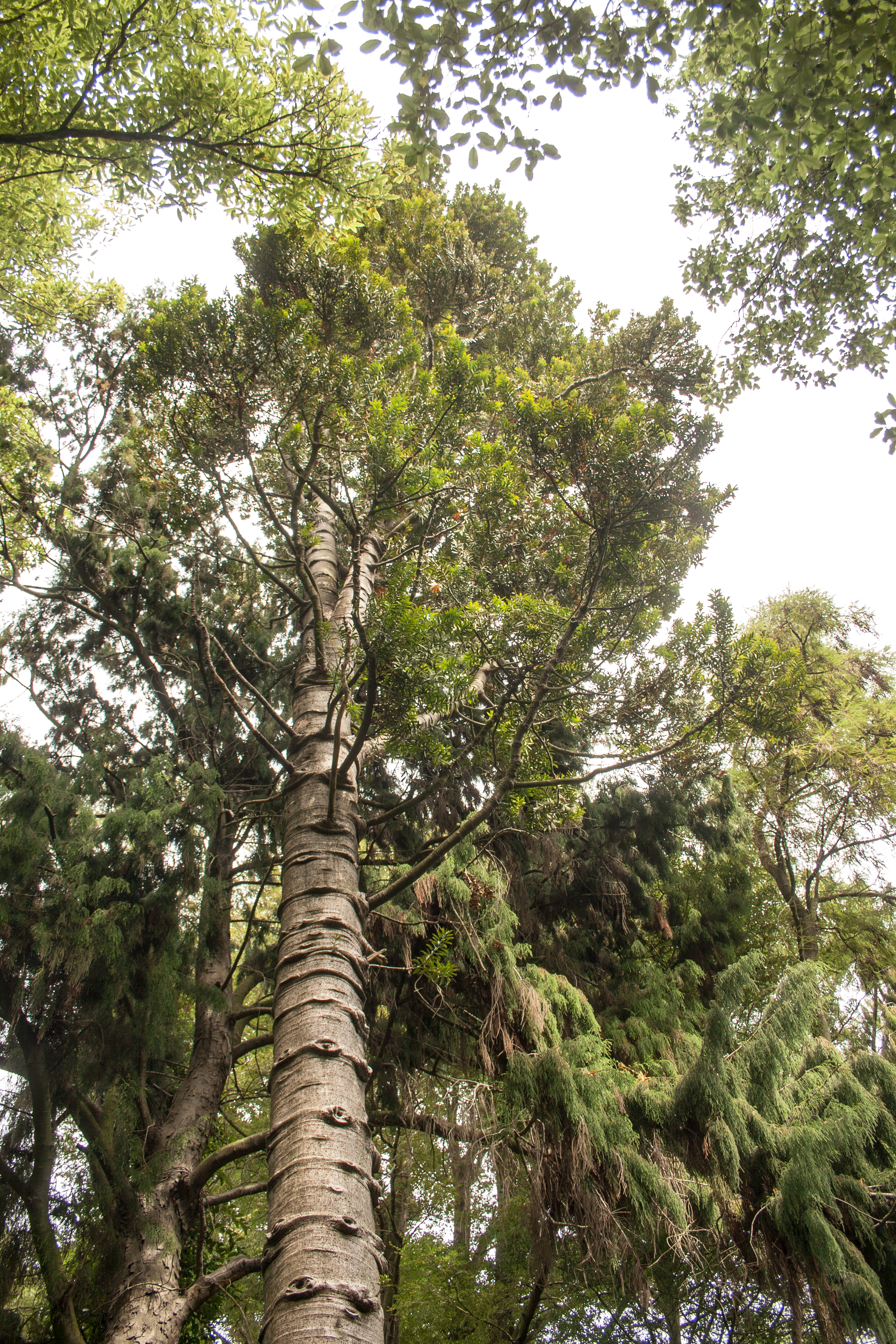 Christchurch Botanic Gardens, New Zealand section, kauri tree